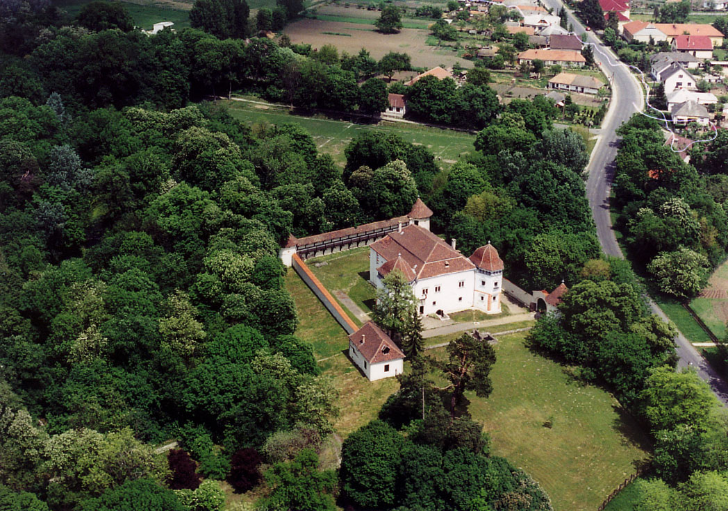 Palace - Pácin - Hungary - Europe